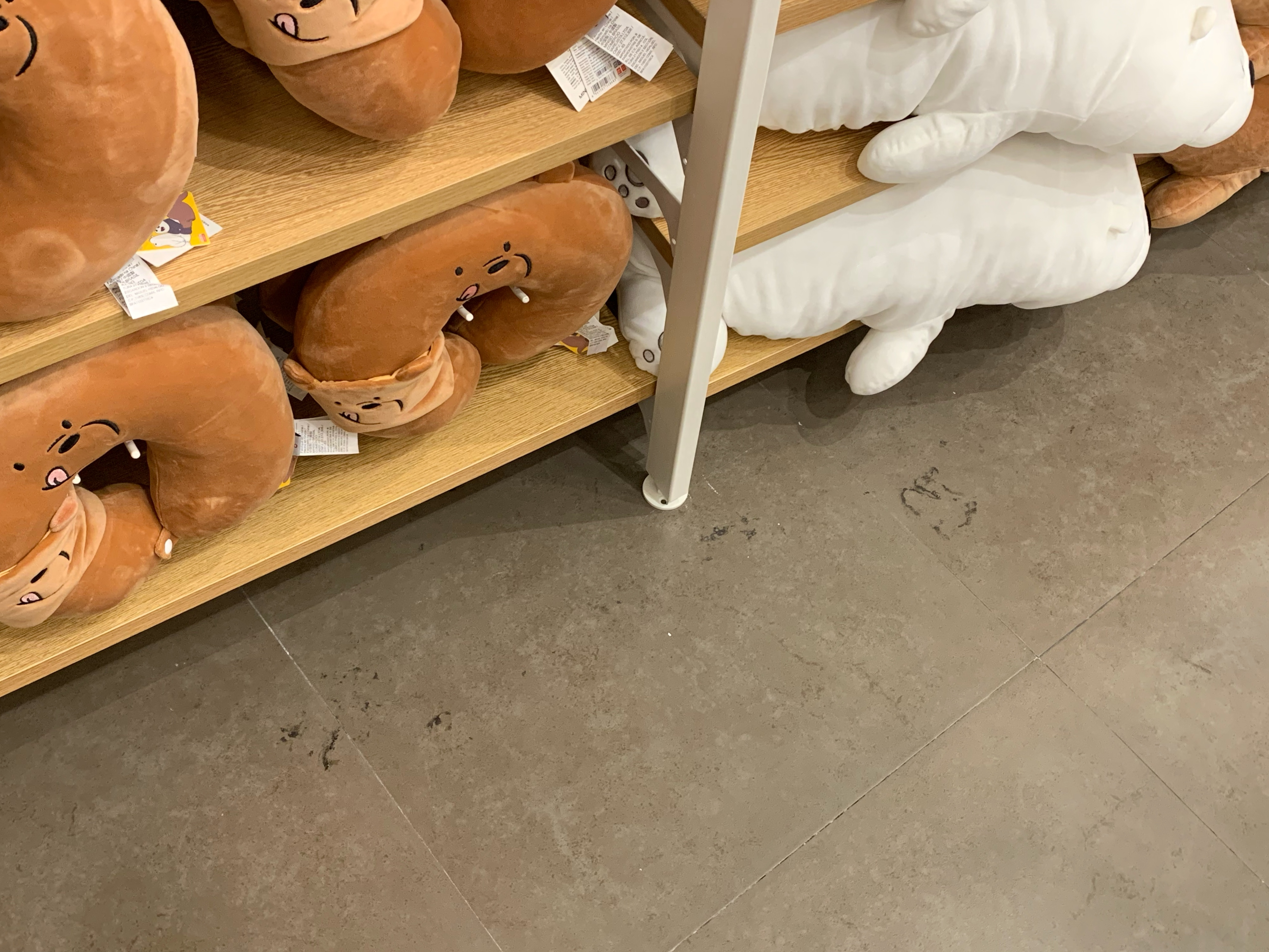 Remnants of the bombing that was stuffed into a doll from We Bare Bears cartoon inside of a Miniso store, Siam Square One Branch. The minor bombing was a part of 2019 Bangkok bombings